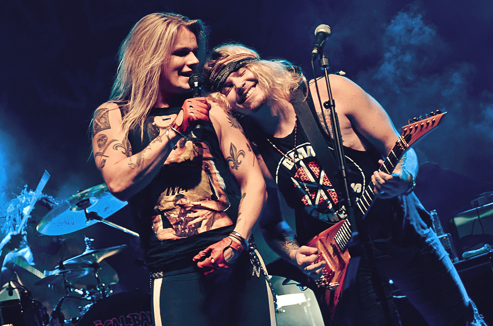 The Local Band performing at WaterXfest in Jyväskylä, Finland on 3 September 2016